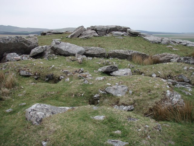 Alex Tor and cairn This large and intricate cairn is on the summit of Alex Tor.